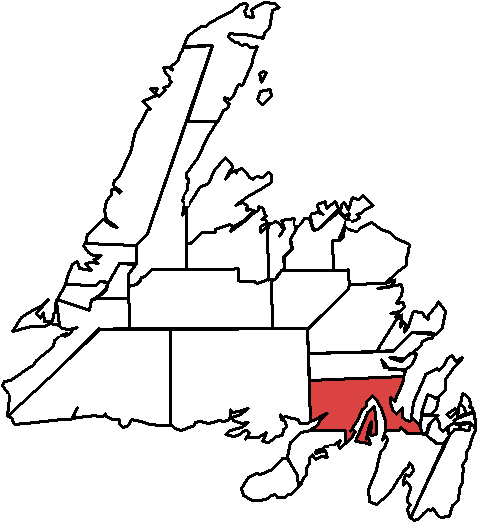 Map based on work by Earl Andrew, from maps used in 2007 elections Map based on work by Earl Andrew, from maps used in 2007 elections